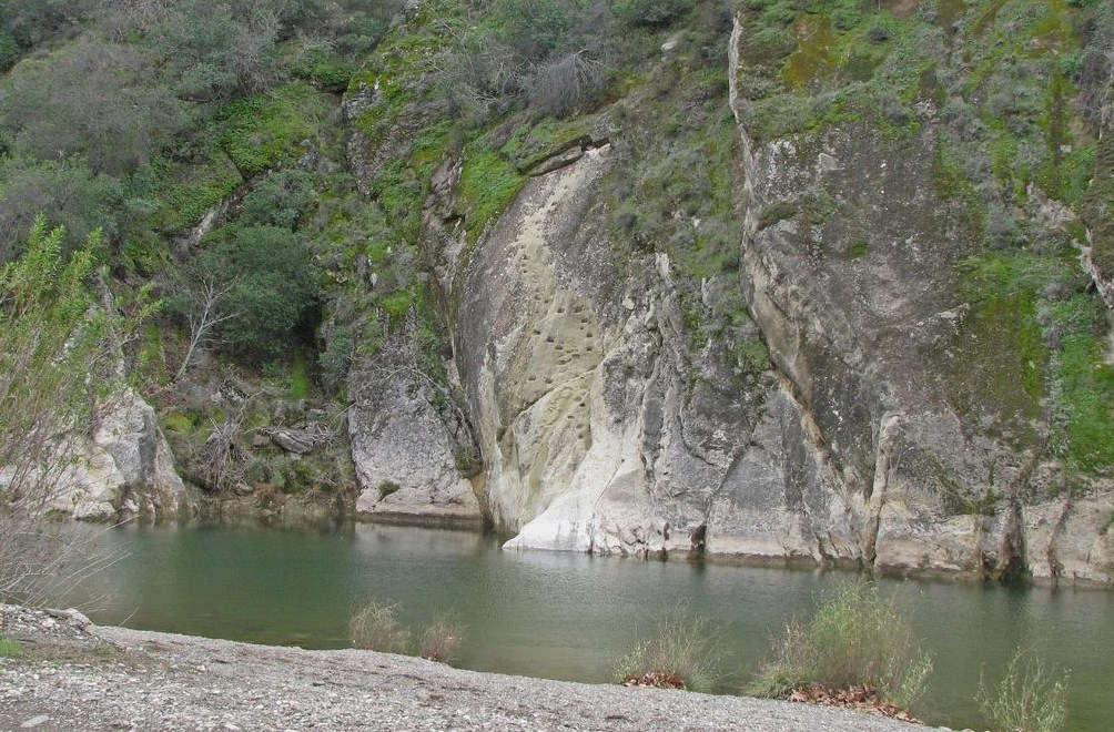 Photograph of Santa Ynez River in California